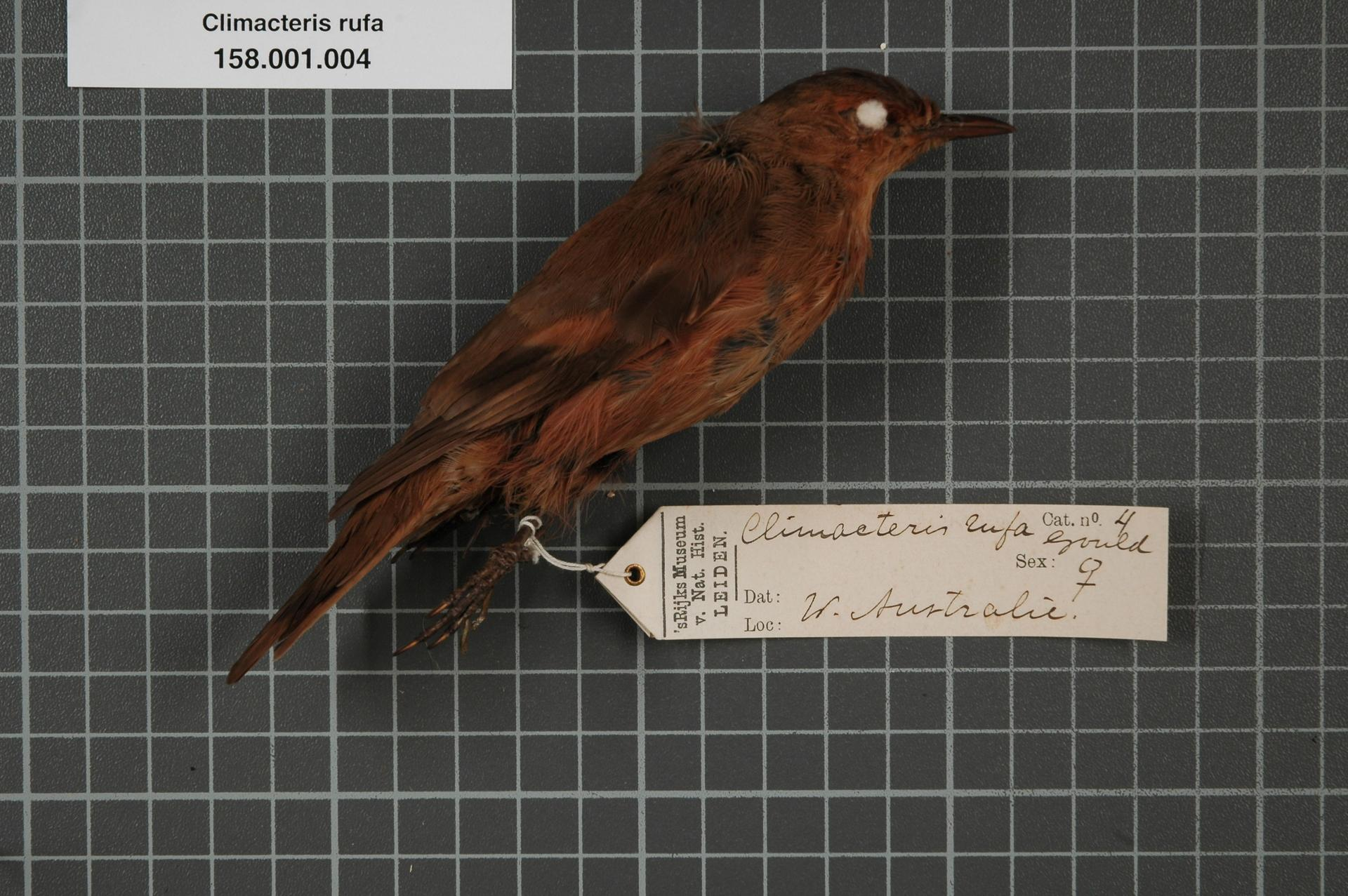 Climacteris rufa Gould, 1841